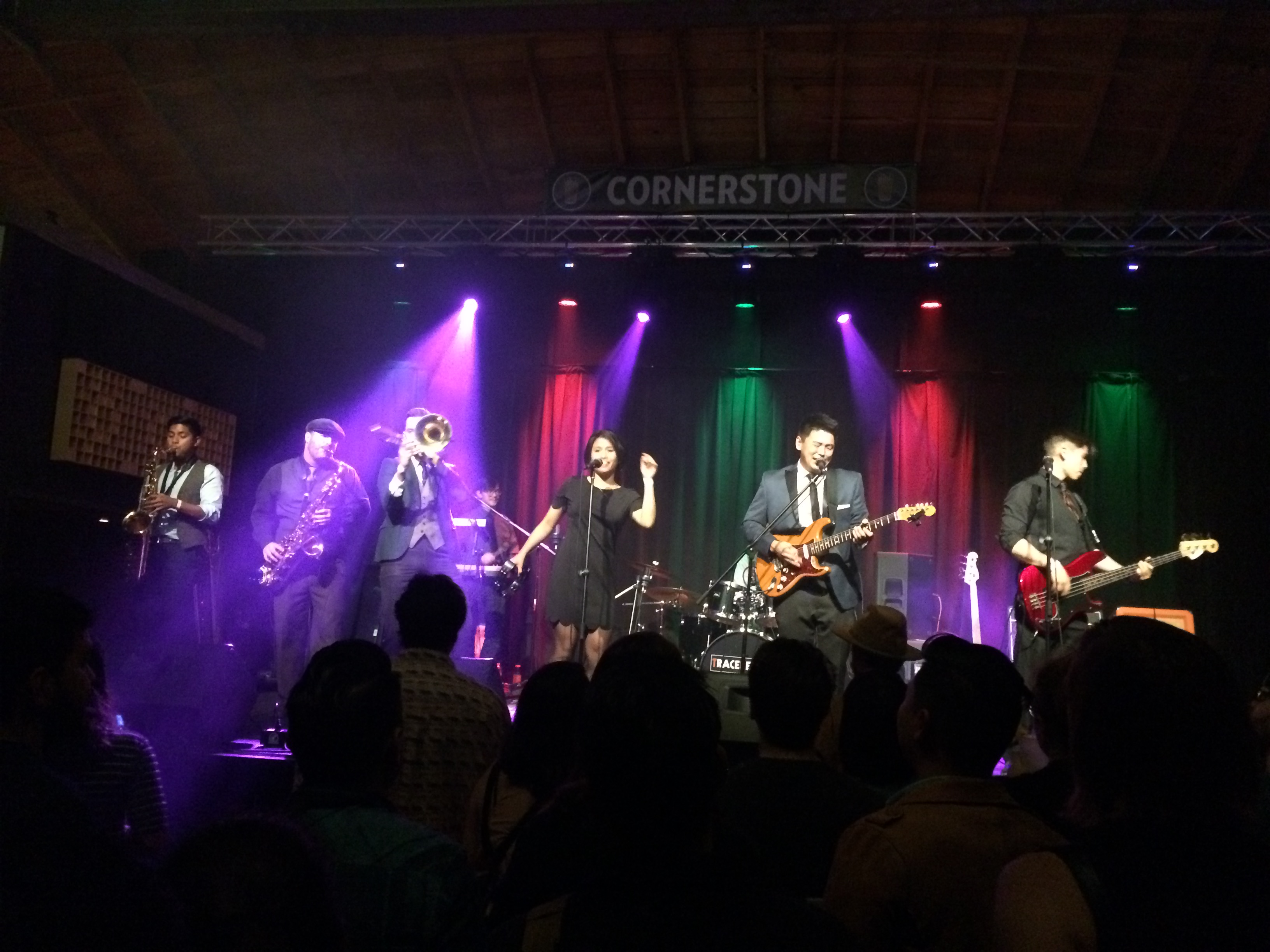 Robyn Li Photography. Trace Repeat live at Cornerstone in Berkeley, CA.